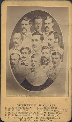 Transfered from English Wikipedia